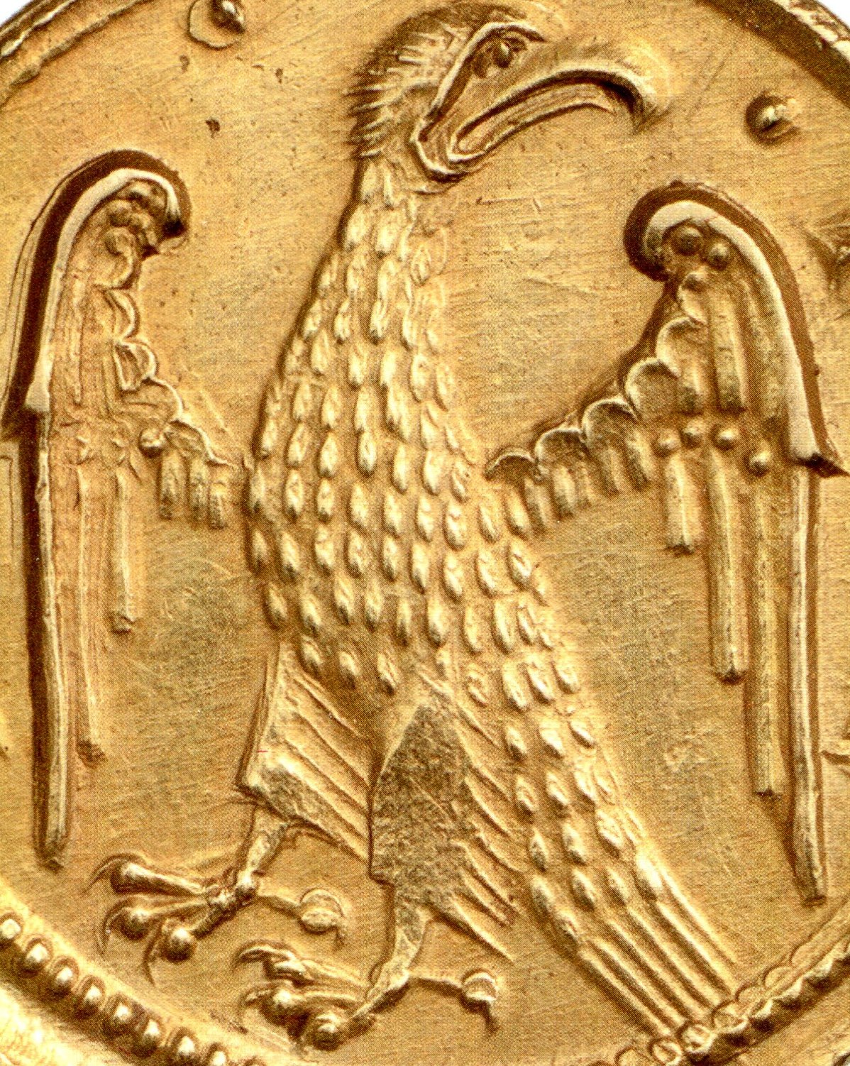 Frederician augustale minted at Brindisi (rev.)